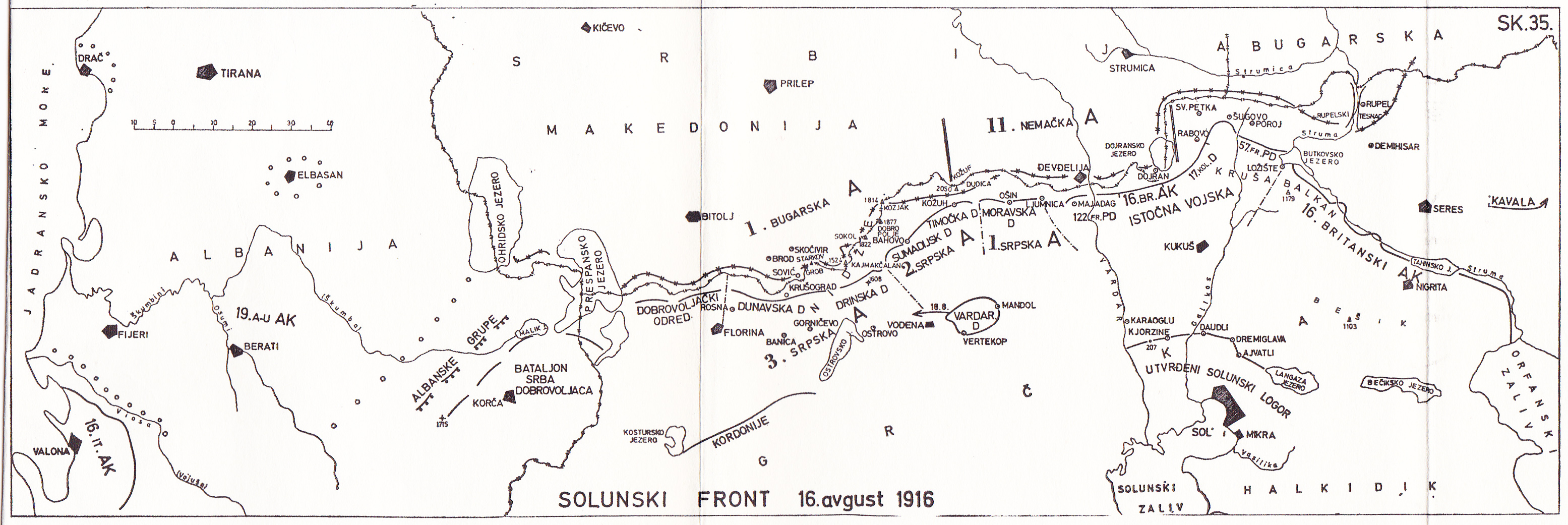 Macedonian front on 16th august 1916